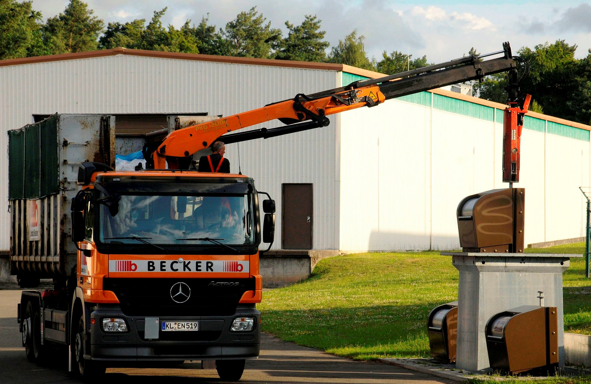 A civil contractor from Germany empties the recycle dumpsters located on the northside of Ramstein Air Base.